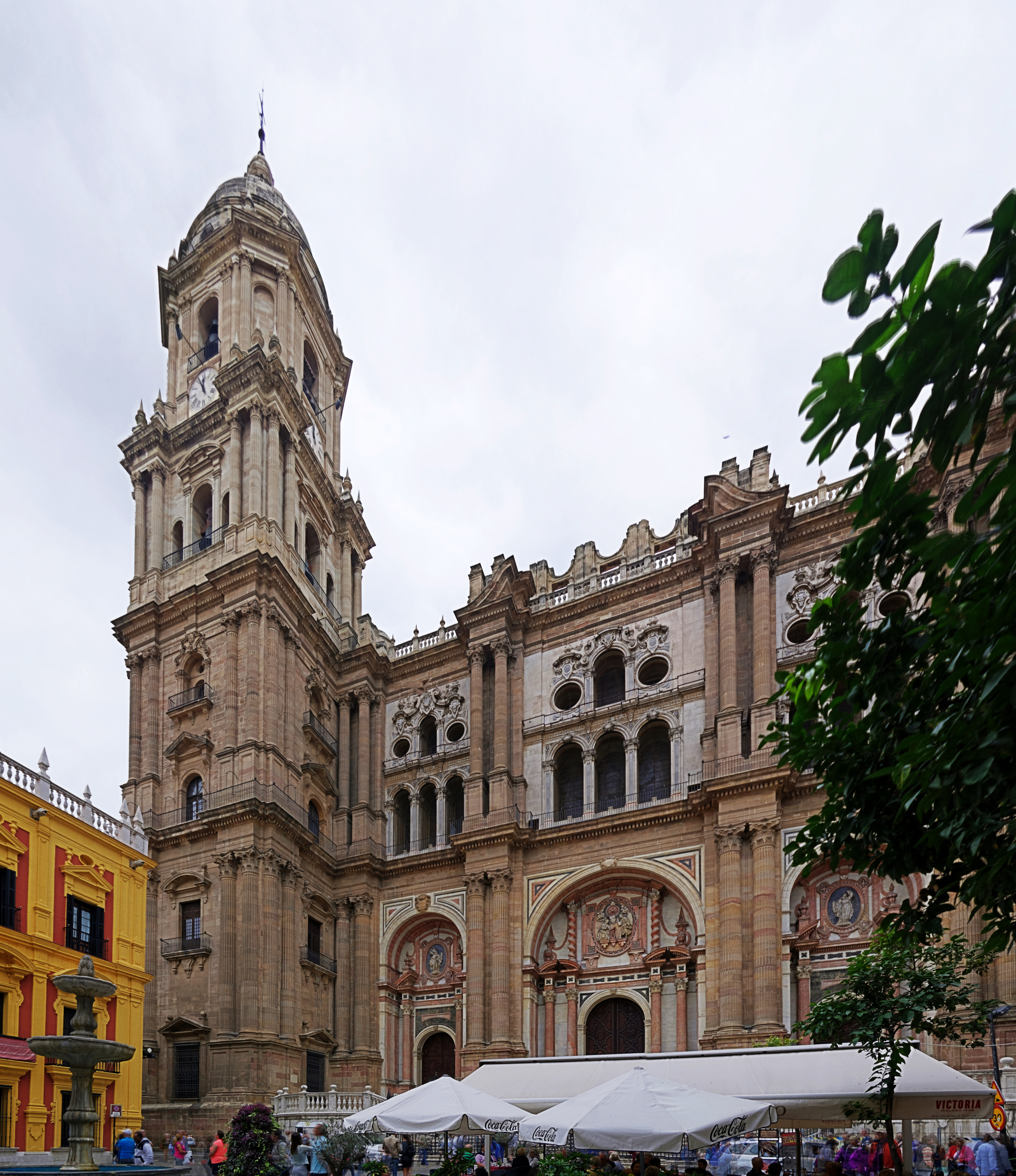 Spain, Malaga, cathedral